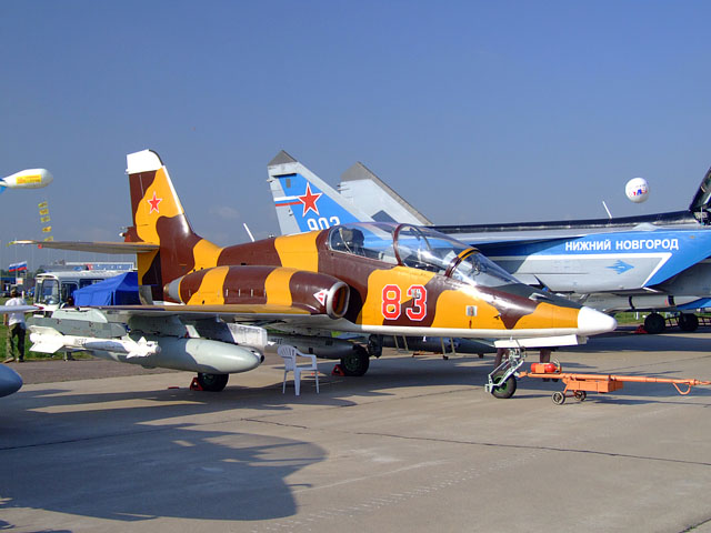 MAKS Airshow-2007. MiG-AT